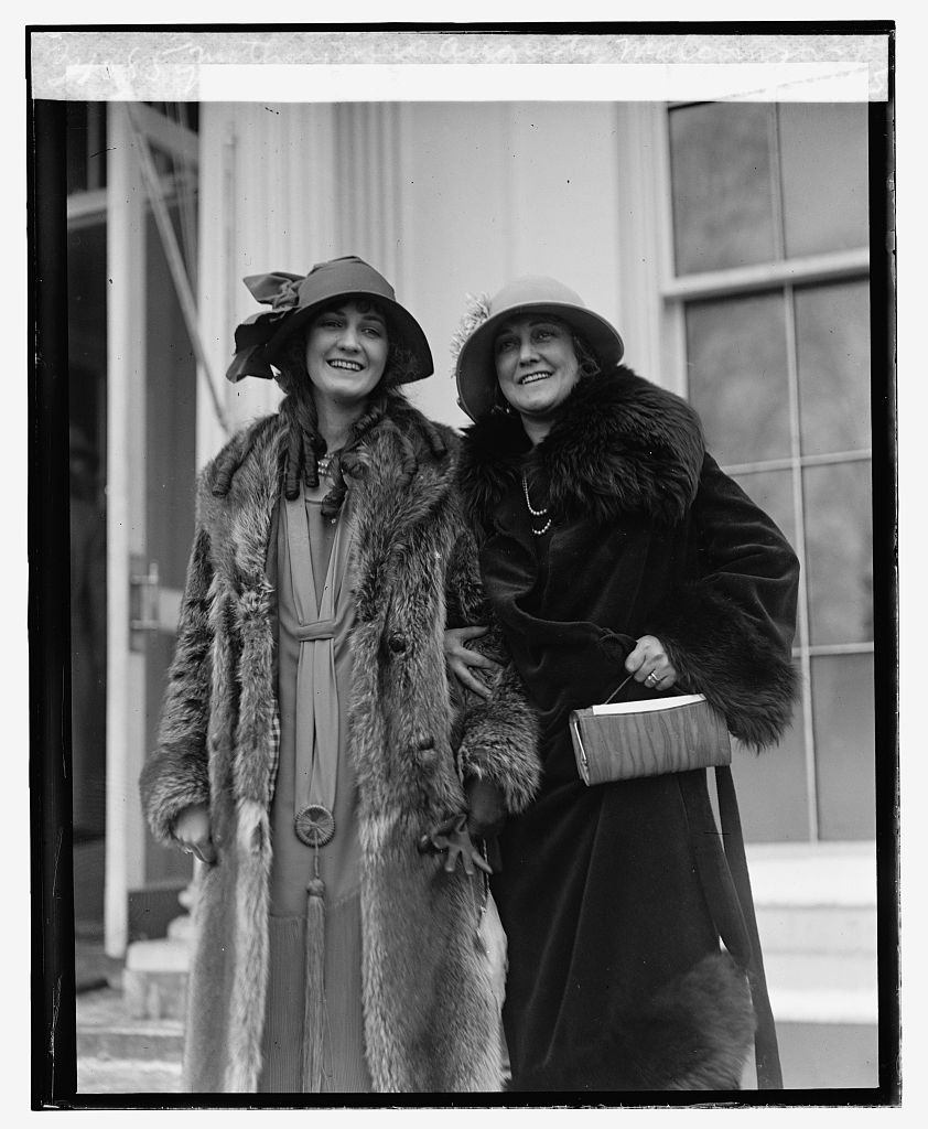 Miss Ruth Malcomson (Miss America 1924) and mother, Mrs. Augusta Malcomson (Jan 30, 1925)